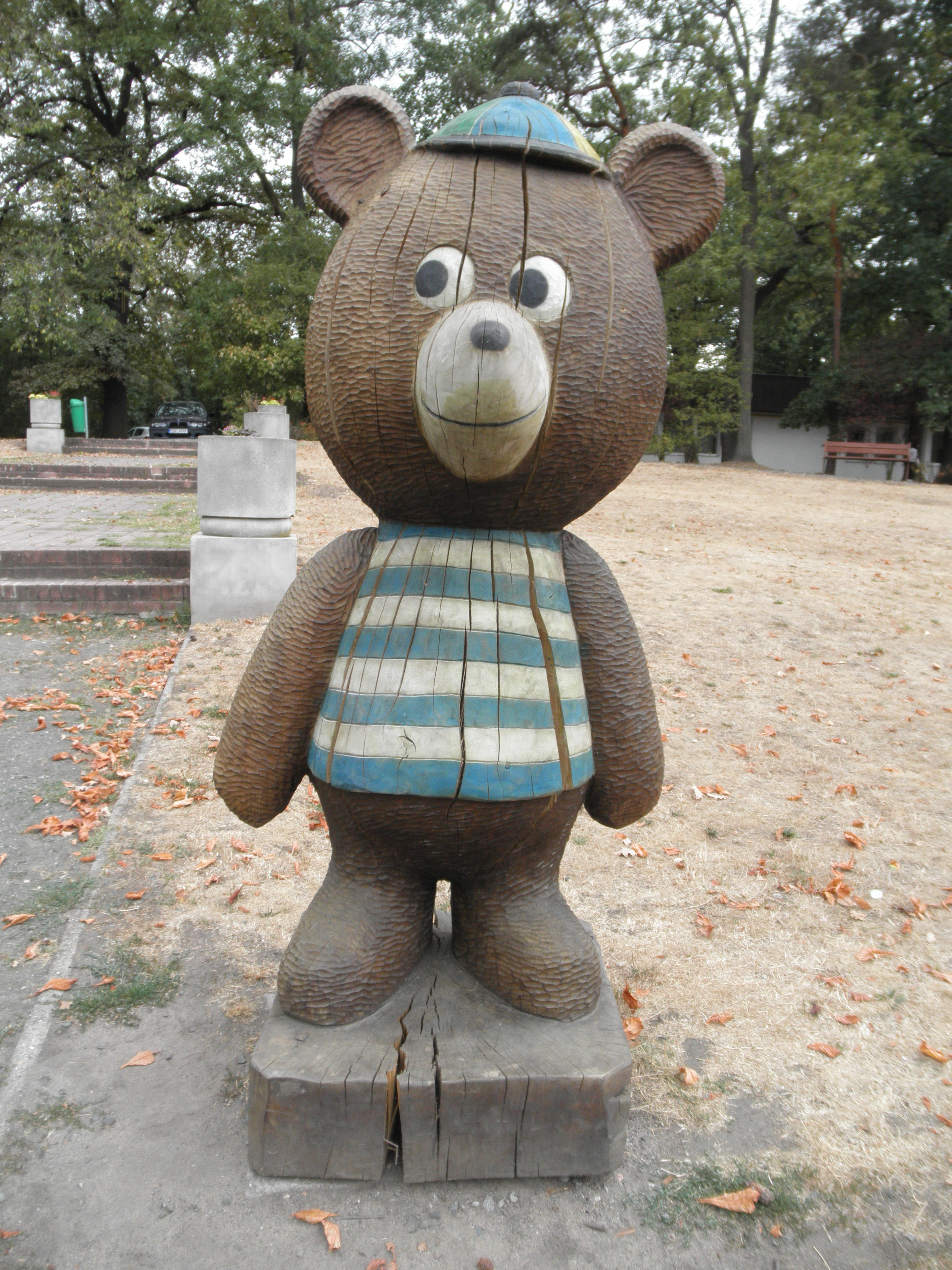 Wooden statue showing the bear from the TV series Hey Mister, Let's Play! in Kolín. The statue was made by Michal Jára.